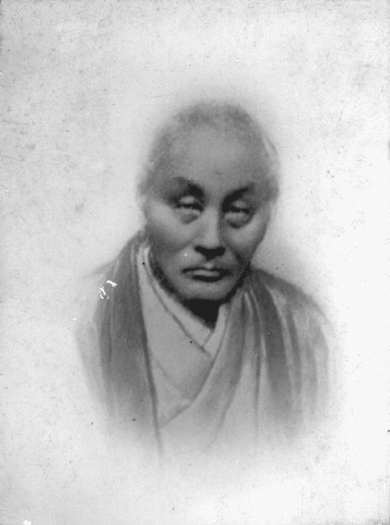 Japanese painter Mori Kansai (1814-1894)